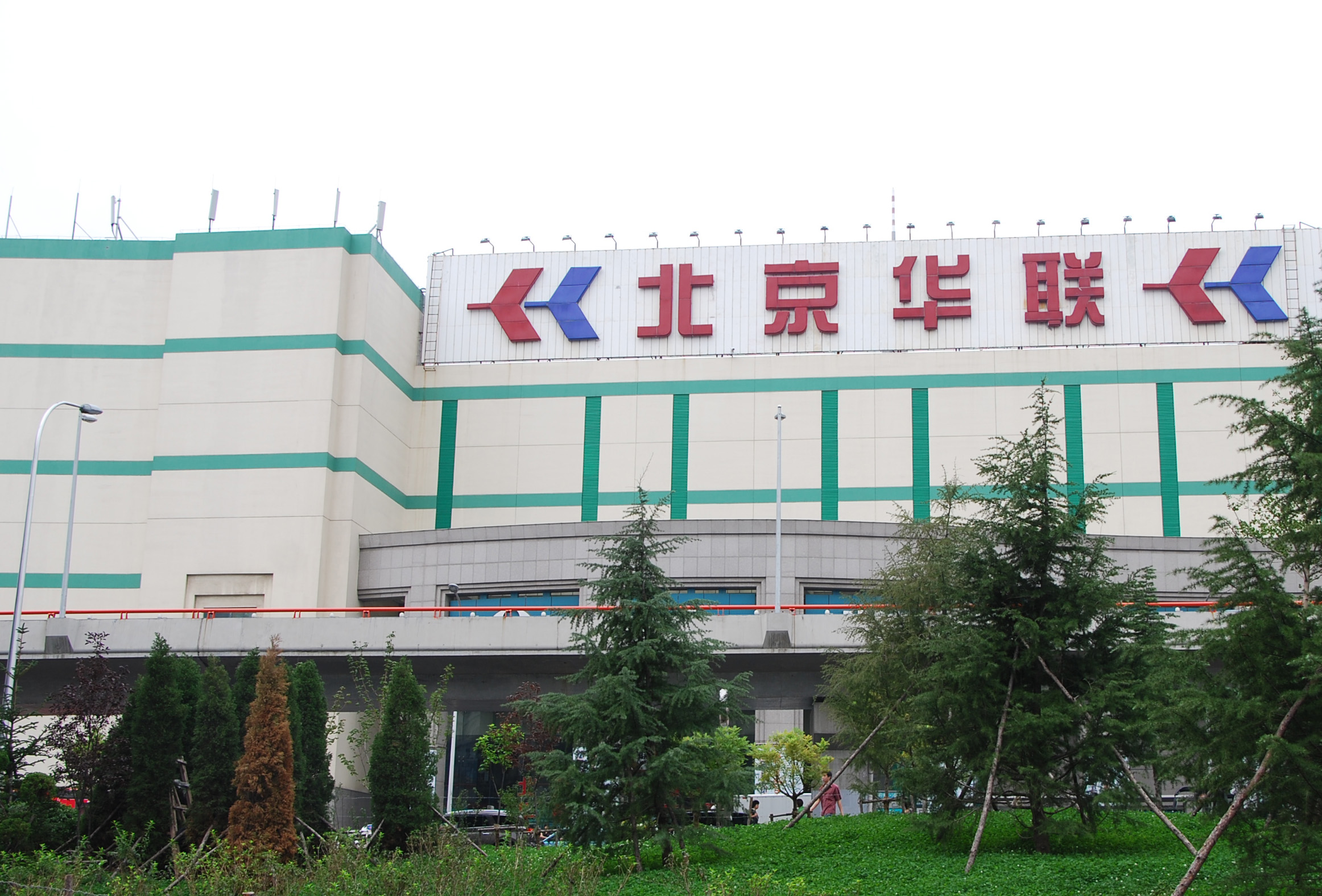 Beijing Hualian Group (Supermarket in Wuyi Square, Dalian)